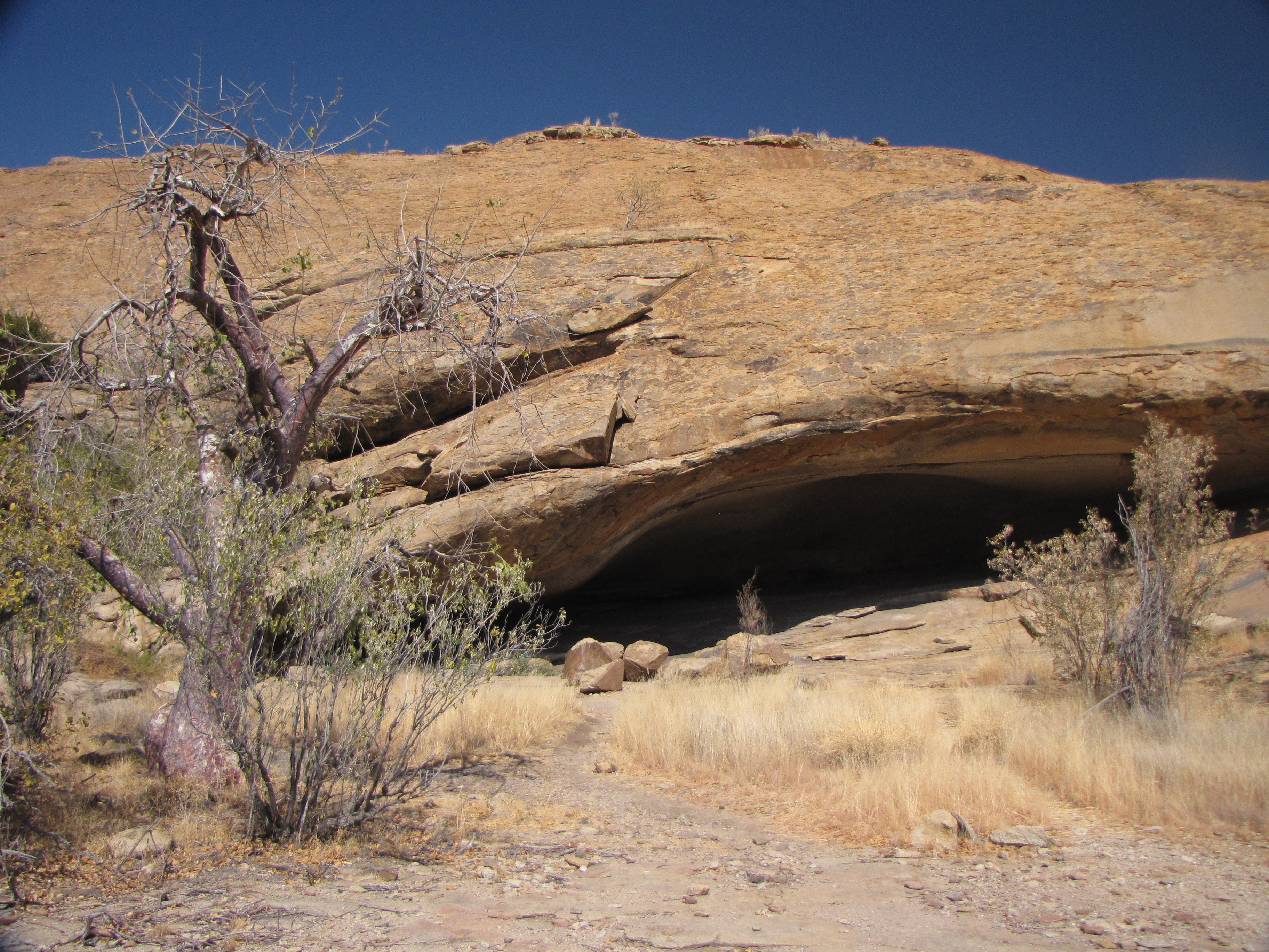 Phillips Cave, Erongo, Namibia Phillips-Höhle, Erongo, Namibia